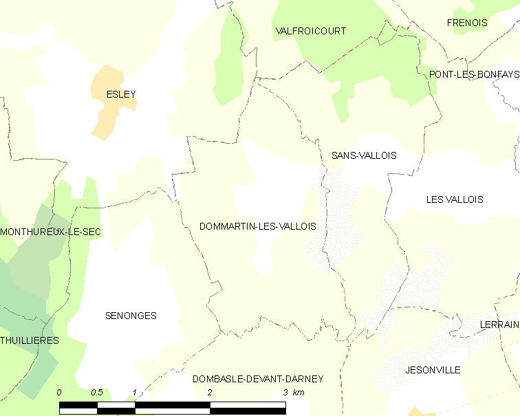 Map of French municipality Dommartin-lès-Vallois